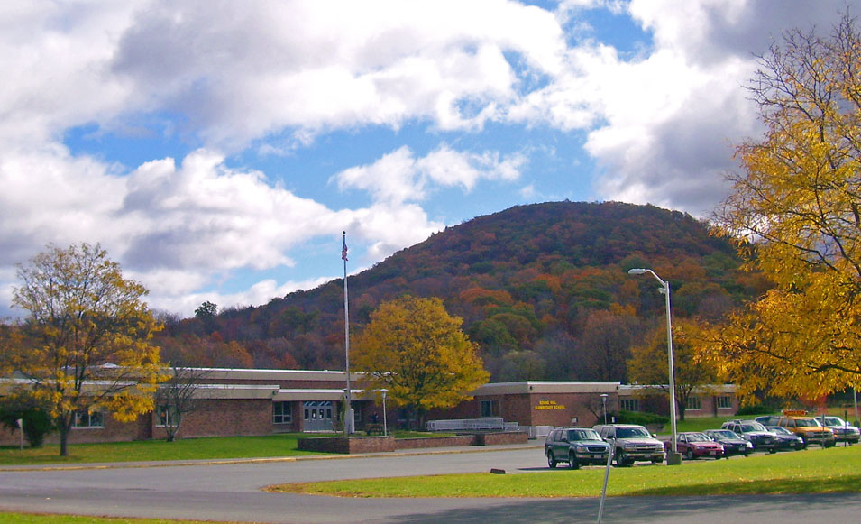 Photographed by Daniel Case 2006-10-26